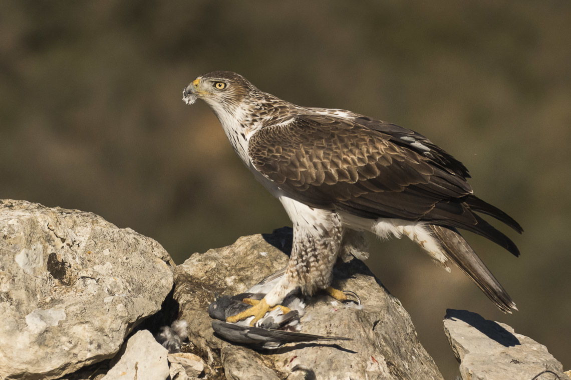 Bonelli's Eagle eating prey - Montsonis - Spain_MG_4737